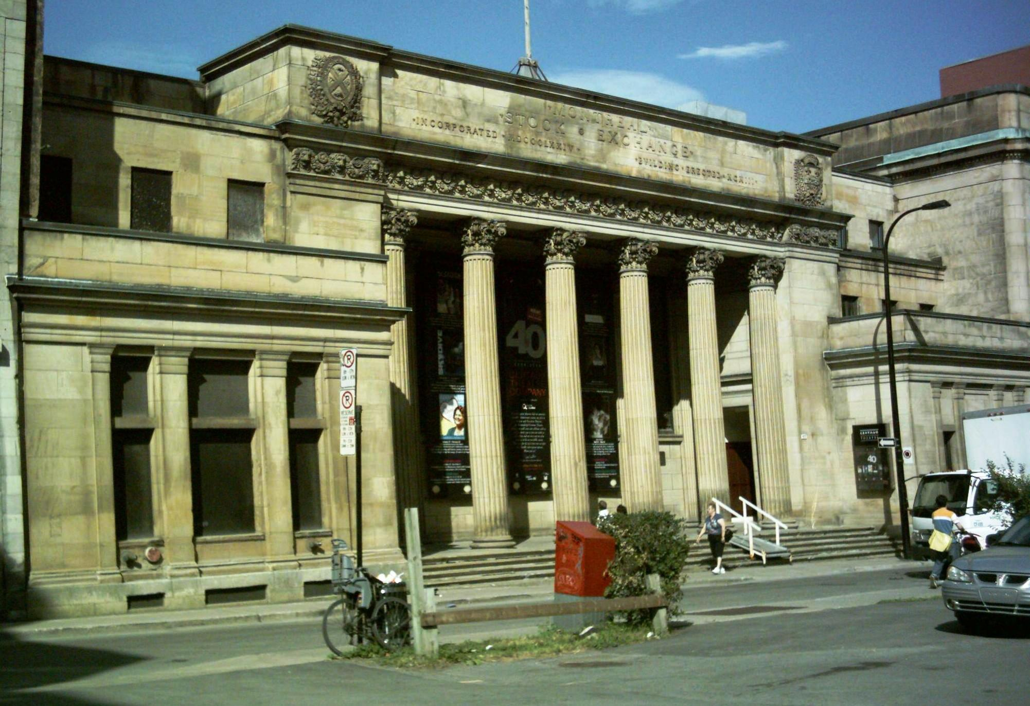 Centaur Theater in Montreal was before the Montreal Stock Exchange building.